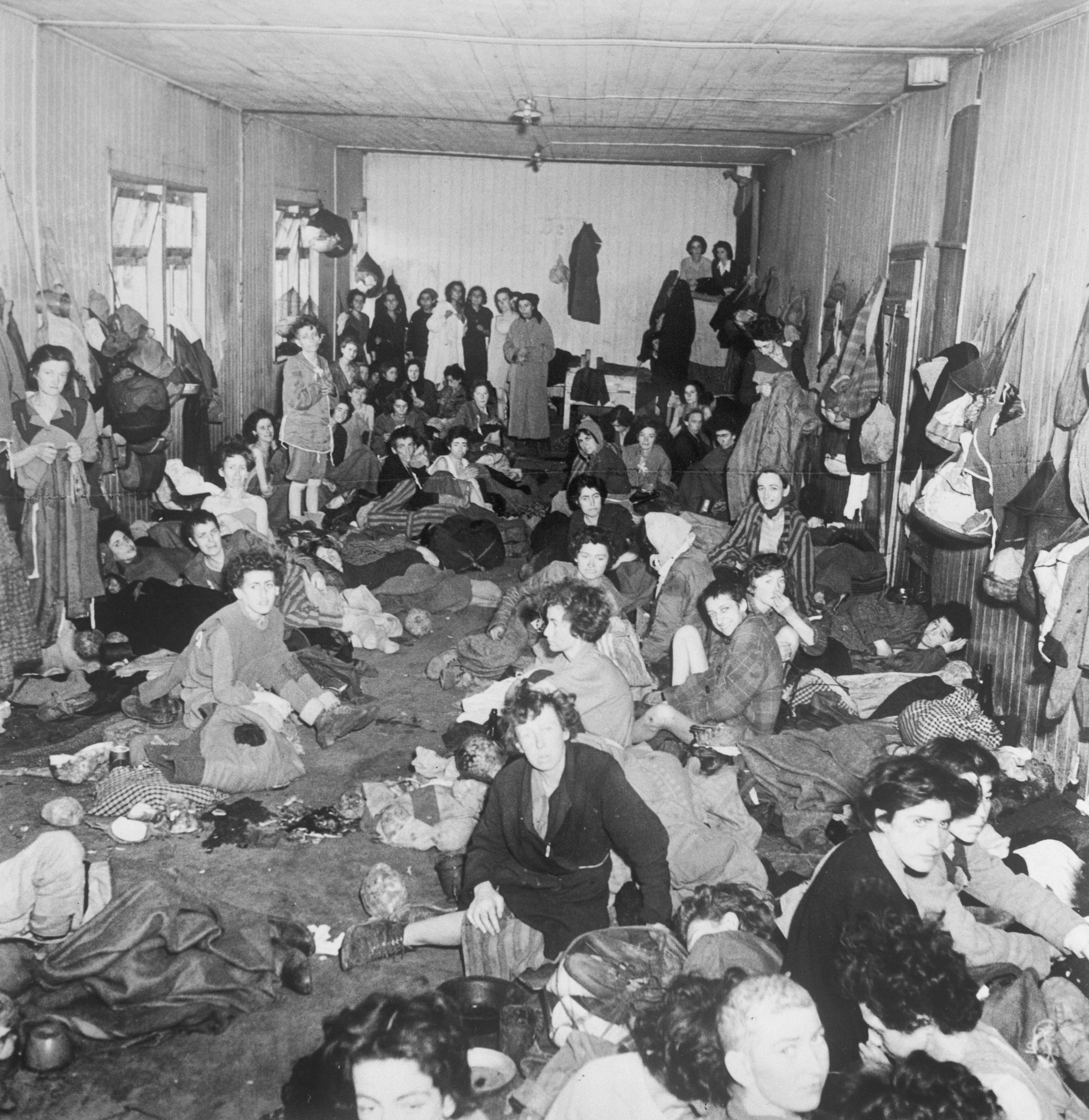 The Liberation of Bergen-belsen Concentration Camp, April 1945 Women and children herded together in one of the camp huts.